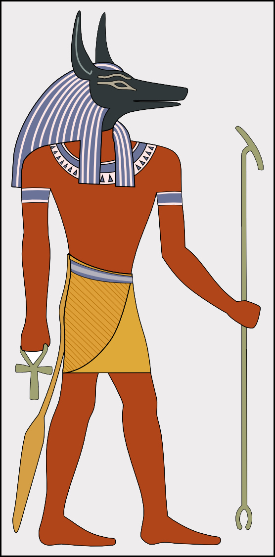 Self made picture of ancient Egyptian god Anubis. Made by Ningyou.